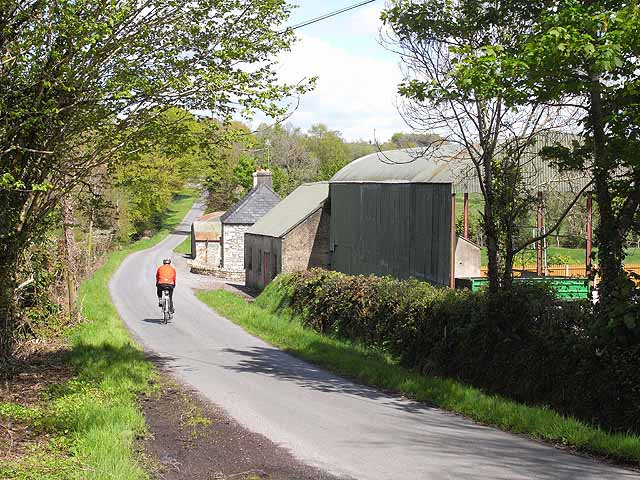 County lane at Clooncorick A typical quiet Irish lane wends its way past a farm a short way to the north-east of the Leitrim town of Carrigallen.